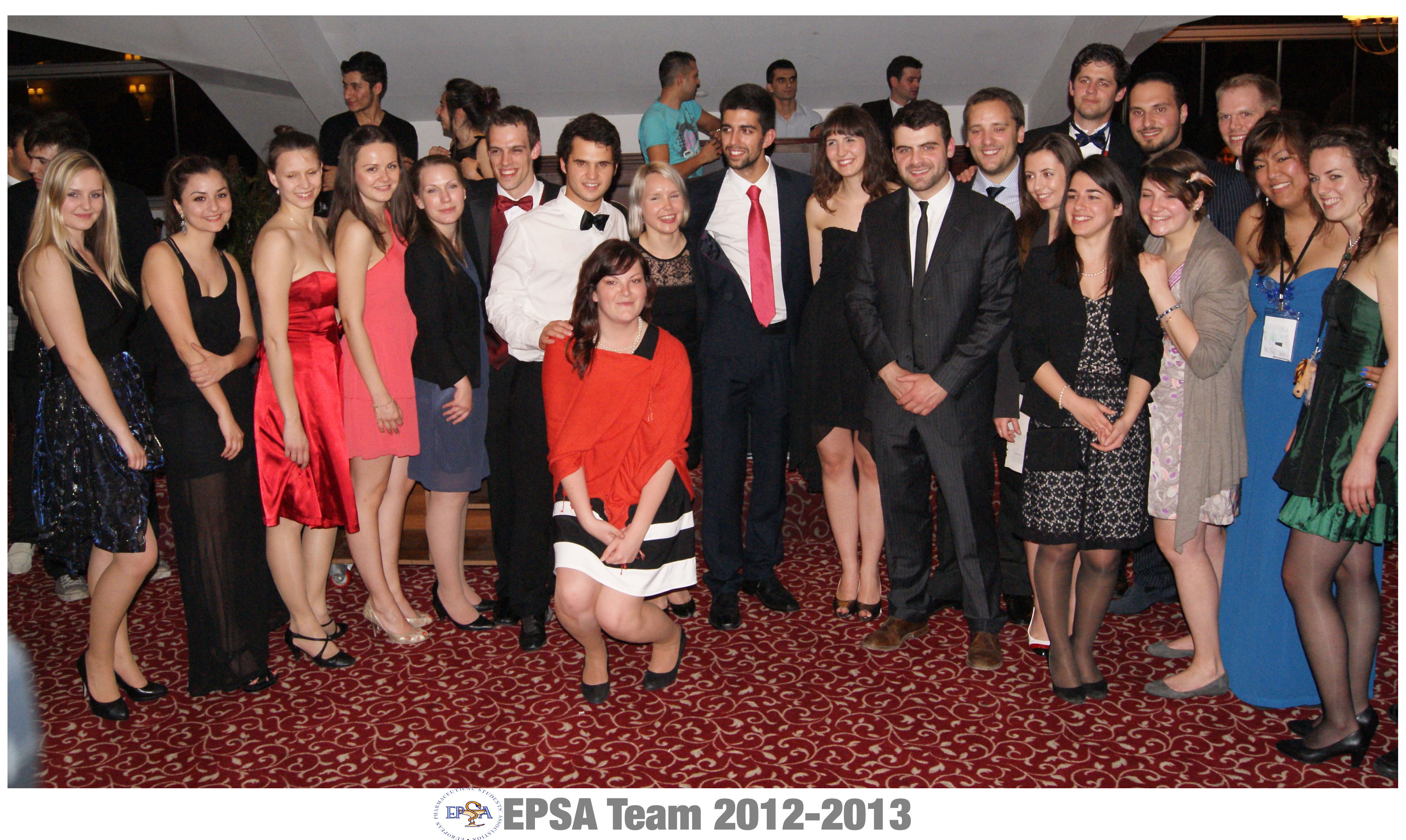 Visual expression of the EPSA Team 2012-2013